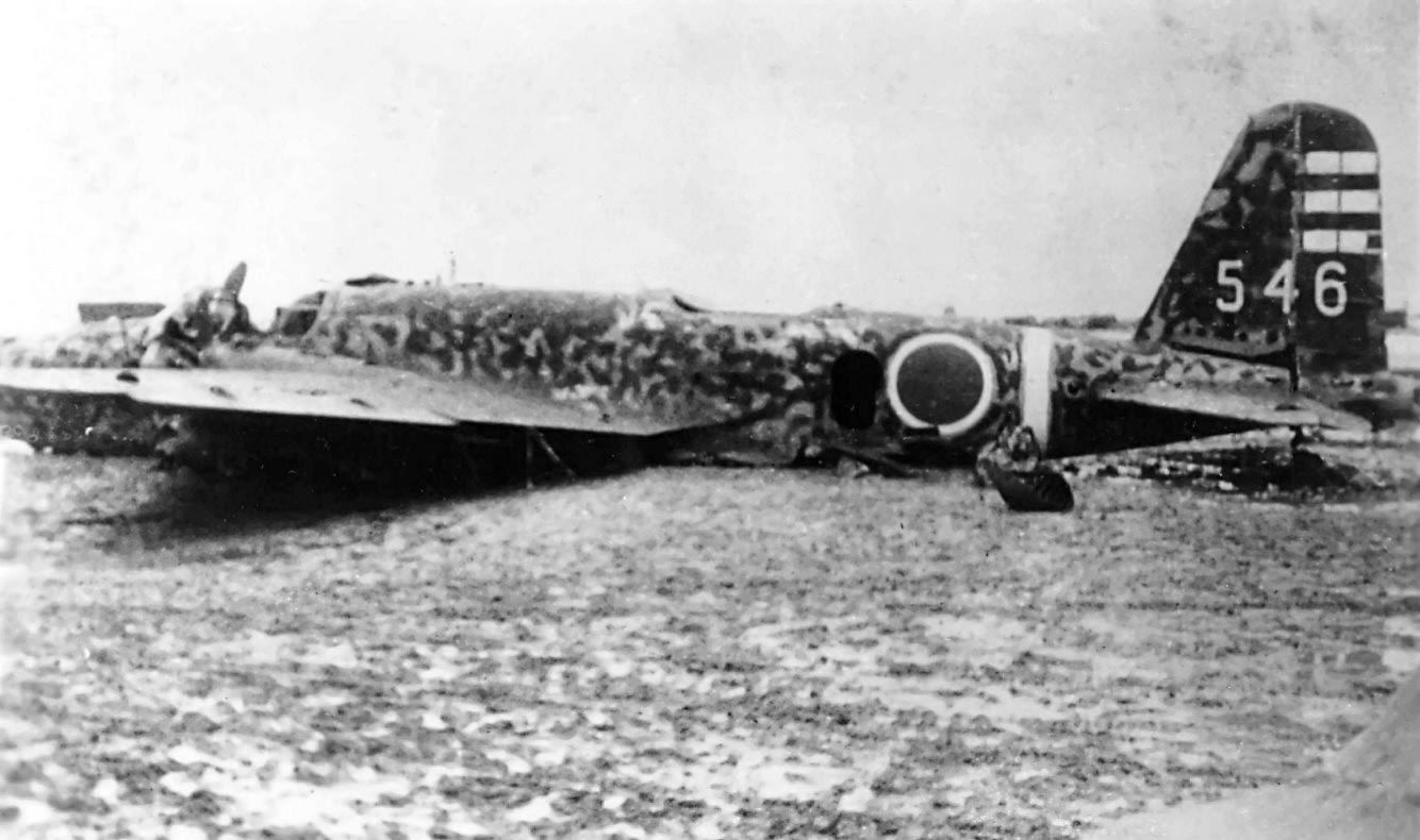 Japanese Ki-21 of Daisan Dokuritsu Hikotai at Yontan Airfield, 25 May 1945.